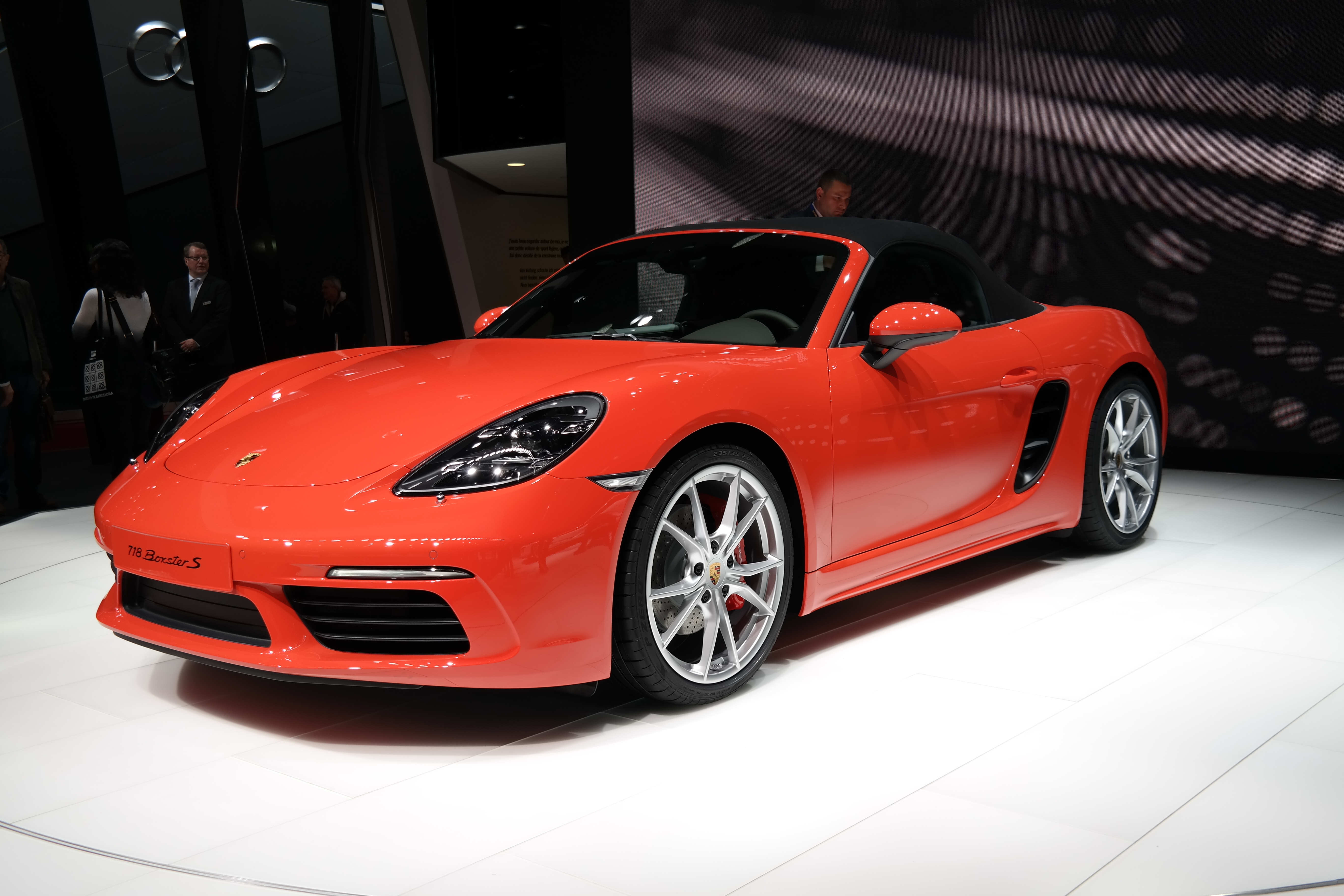 Geneva Motor Show 2016 (photo taken on the first press day)